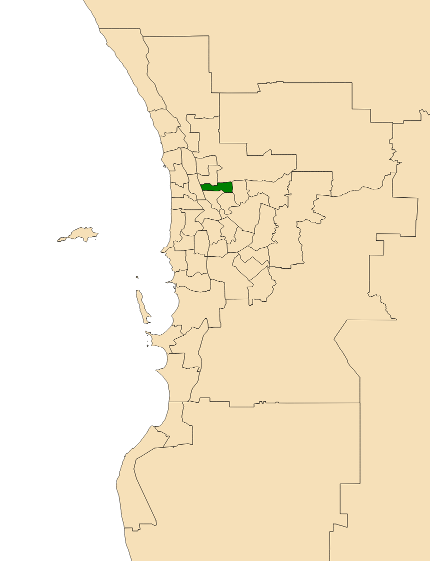 Location of the electoral district of Morley in the Perth metropolitan area, Western Australia as of the 2017 WA state election.